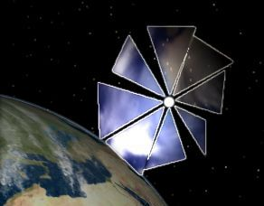 Illustration of the Cosmos-1 solar sail